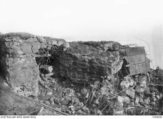 A black and white photograph of damaged masonry with reinforcing rods sticking out of it